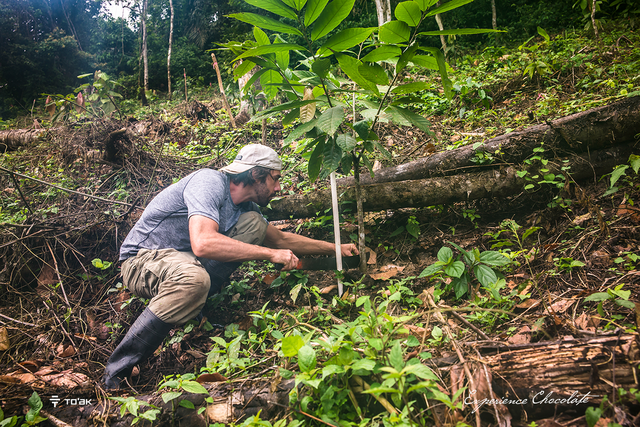 Jerry Toth tending to a grafted 100% nacional cacao sapling in the conservation of Third Millennium Alliance